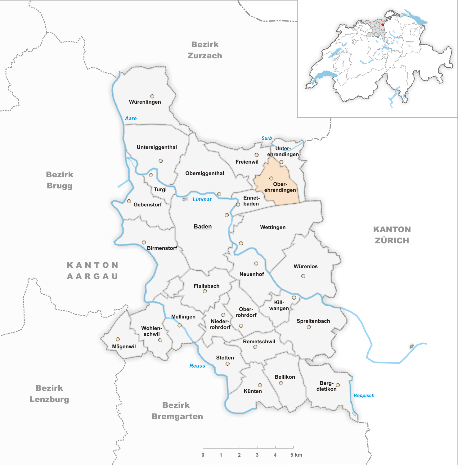 Municipality Oberehrendingen